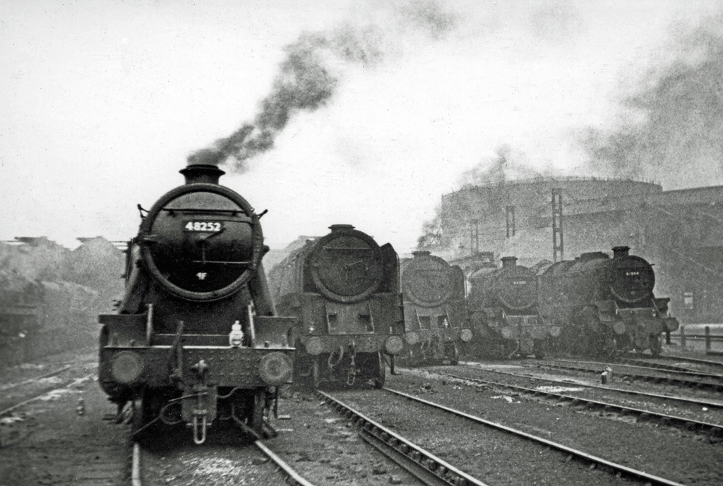 Birkenhead Mollington Street engine shed in October 1967 with, from left to right, locomotives 48252, 92108, 92122, 44840 and 44844.